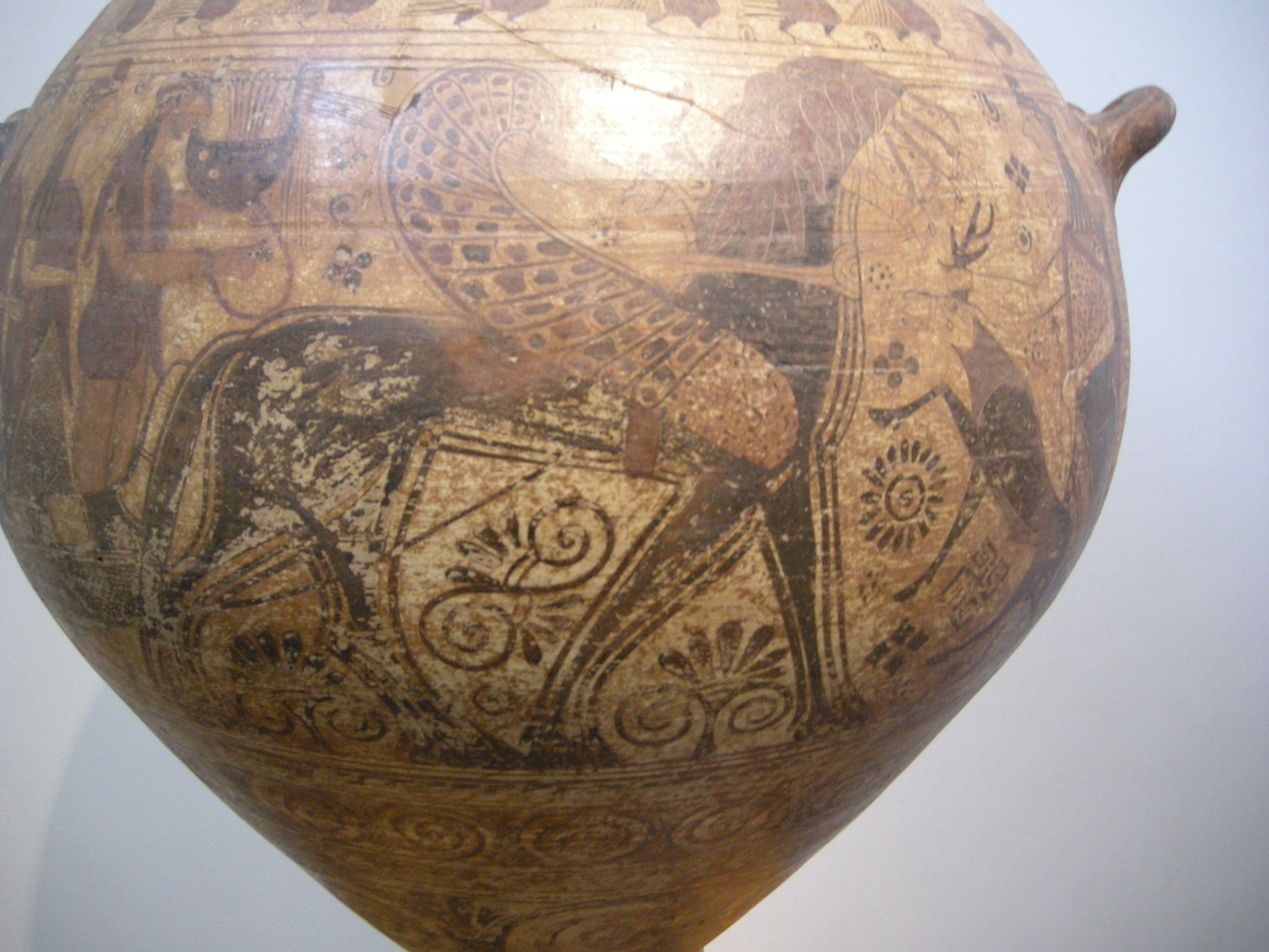 Apollo and Artemis